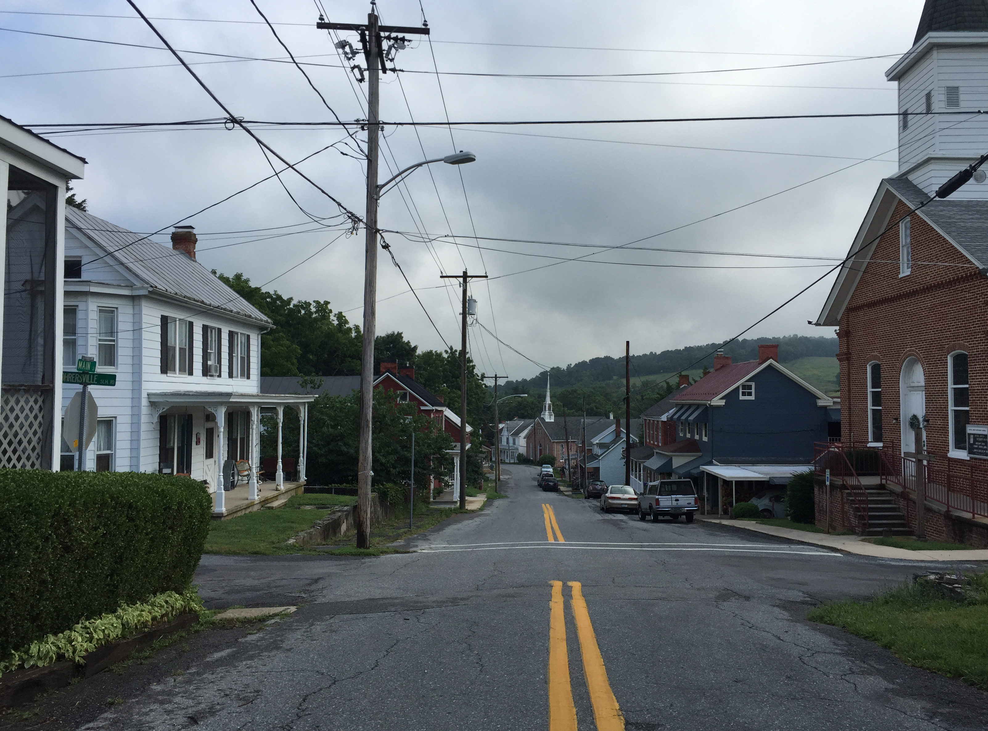 View north along Maryland State Route 858 (Main Street) at Rohrersville School Road in Rohrersville, Washington County, Maryland